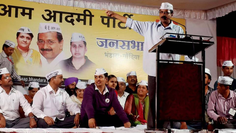 Prashant Mishra, Arvind Kejriwal, Aam Aadmi Party, Bhandara Gondia, Loksabha 2014, AAP, Anjali Damania